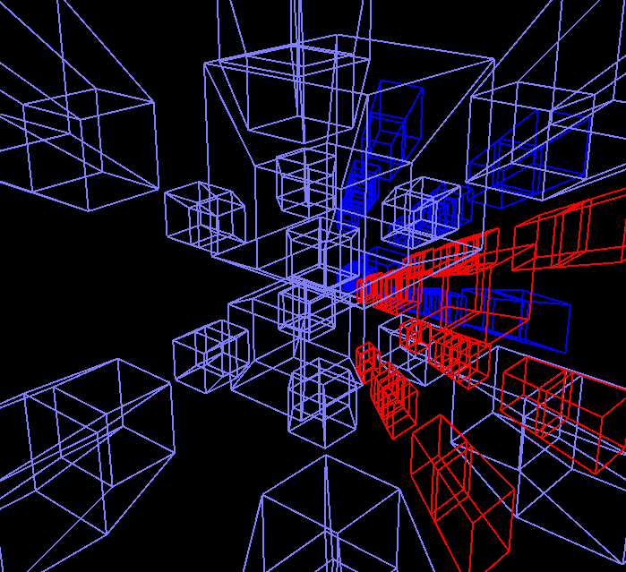 5D virtual 2x2x2x2x2 sequential move puzzle